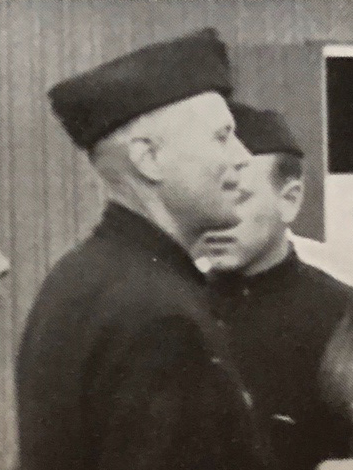 This image is a cutout from a larger photo, showing Norwegian businessman Nils Christoffer Bøckman as a prisoner in the Grini concentration camp in Norway.